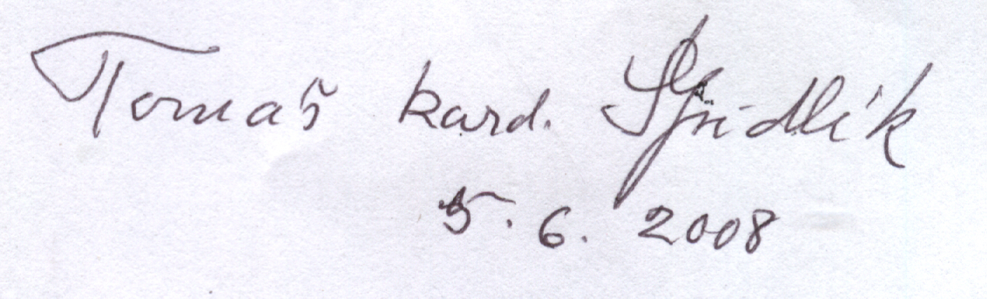 Signature Cardinal Tomas Spidlik